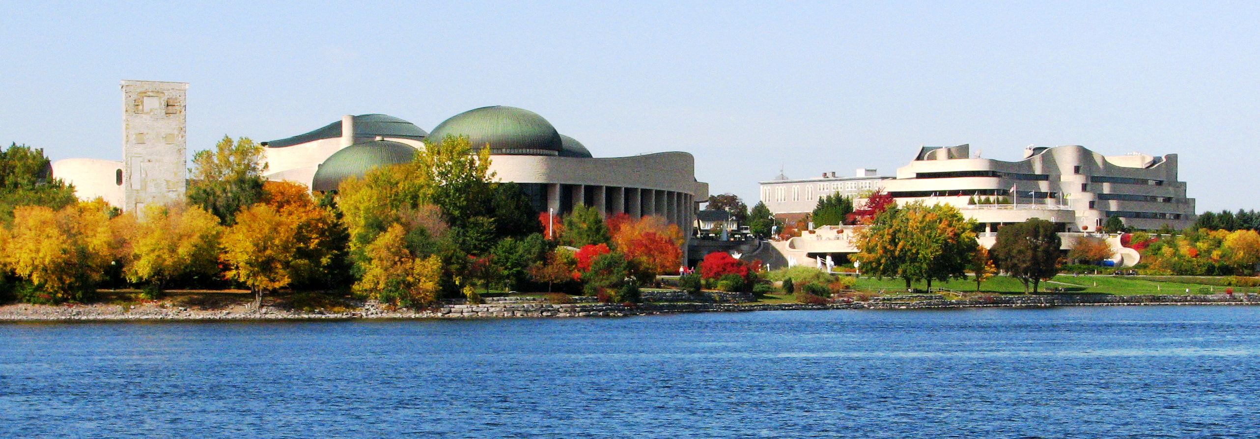 Canadian Museum of Civilization viewed from Ottawa, Gatineau, Quebec